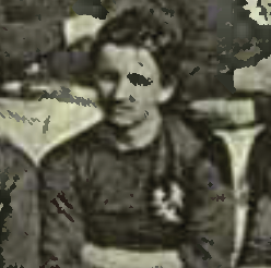 Thomas Marshall from a picture of the first Scotland Rugby side in 1871.